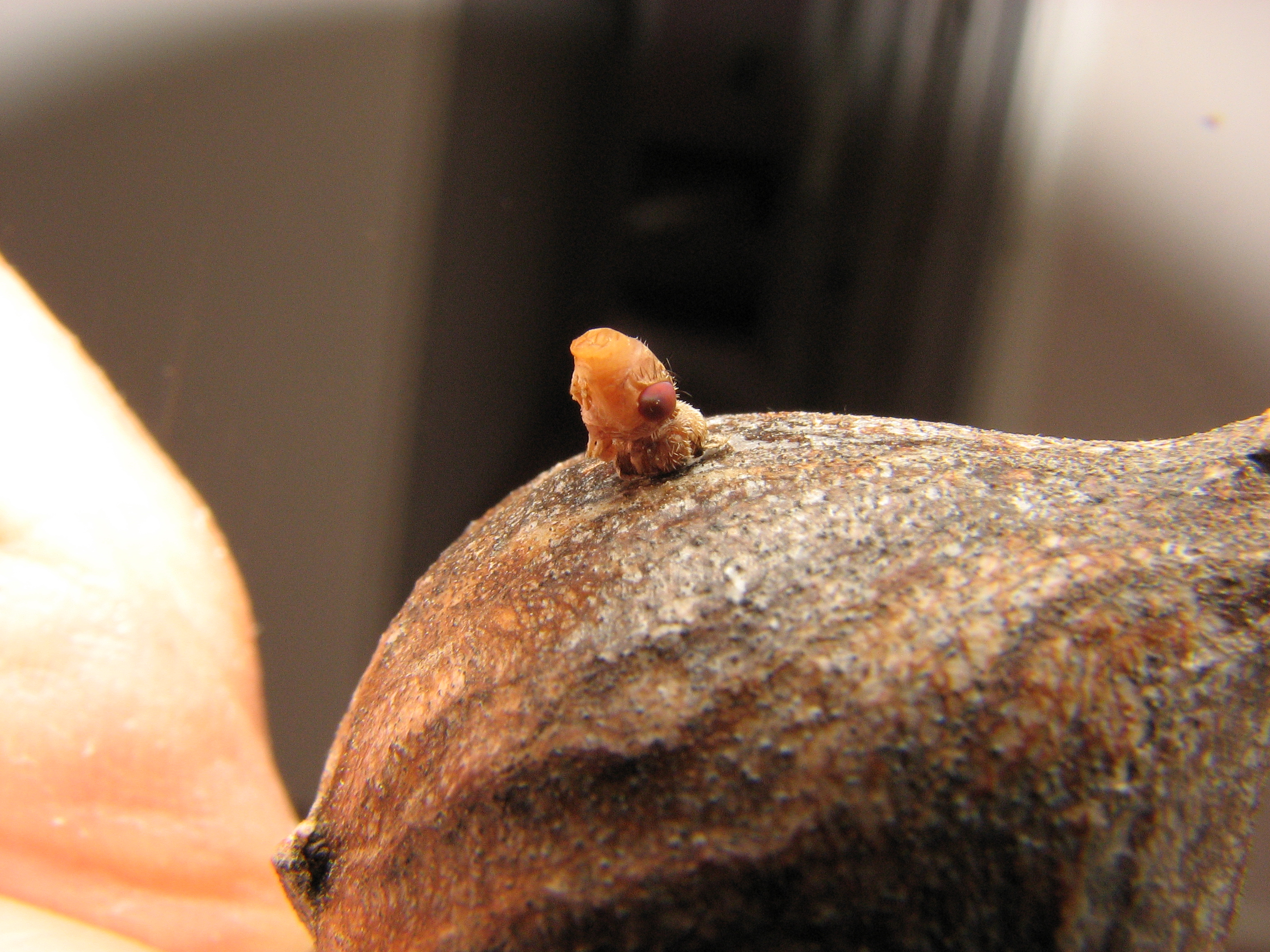 Adult Eurosta solidaginis emerging from goldenrod gall. Ptilinum on head. Horsham, Montgomery County, Pennsylvania, USA.